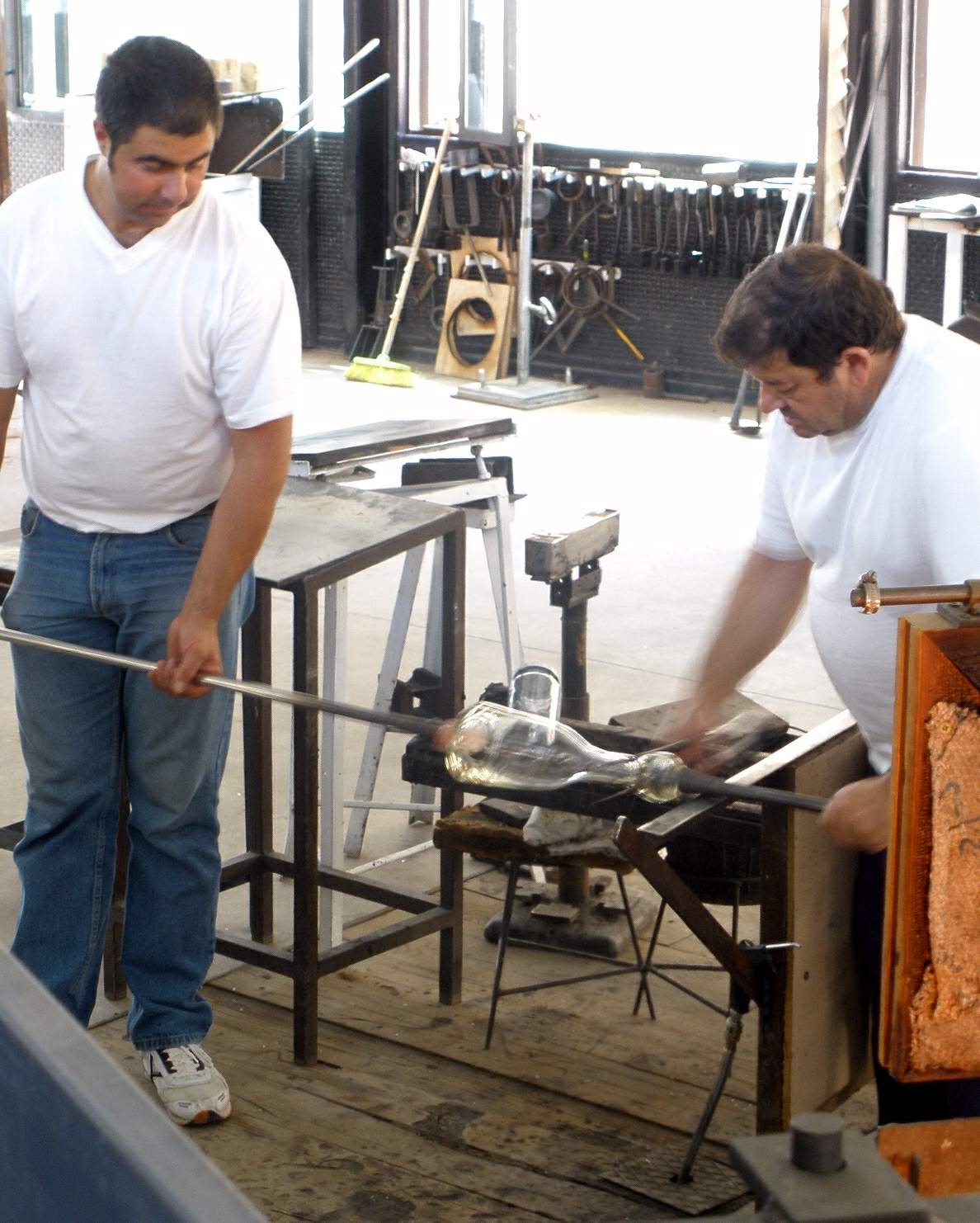 Real Fábrica de Cristales de La Granja de San Ildefonso